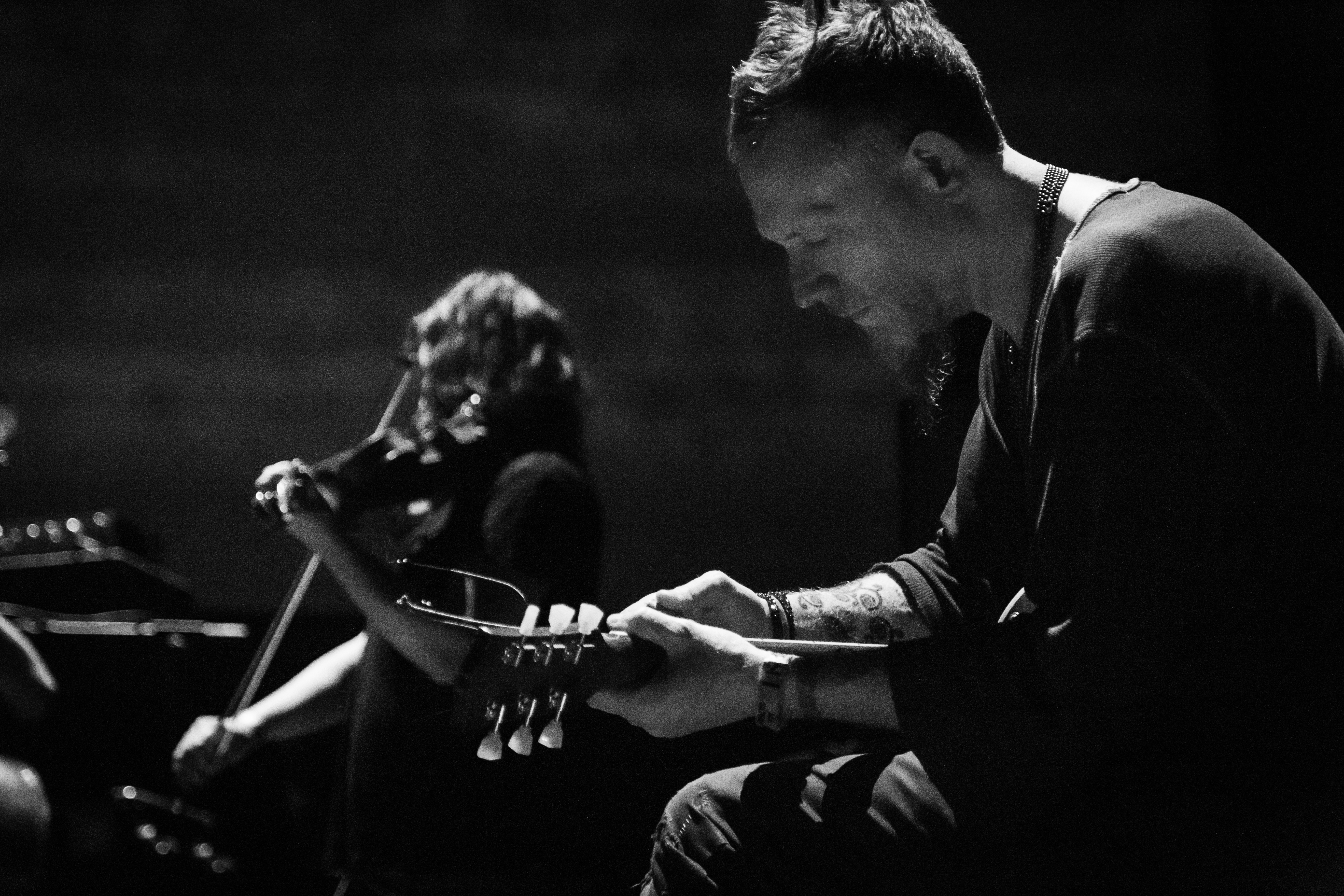 Godspeed You! Black Emperor performing live at Roadburn Festival 2018